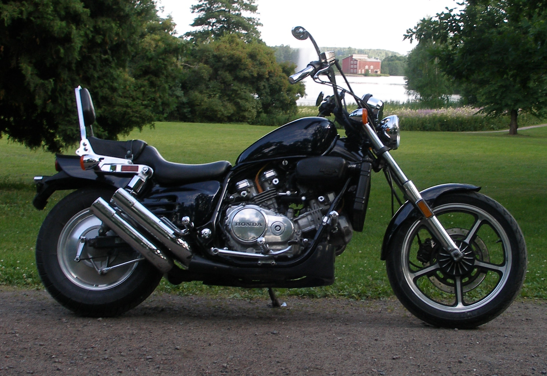 Picture of Honda V45 Super Magna, repainted, without fuel tank decals